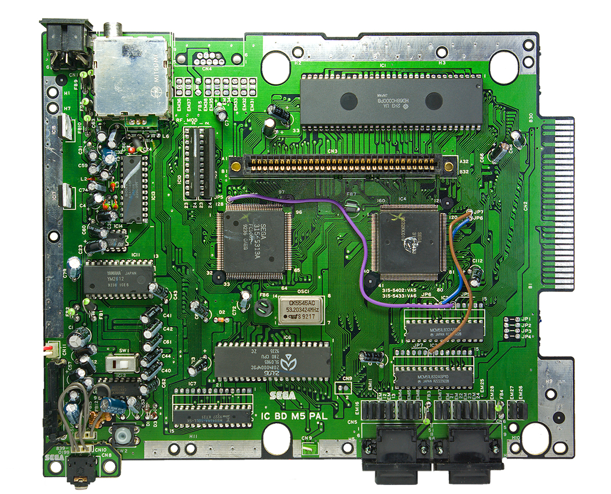 Sega Mega Drive mainboard (Manufactured 1992) Details: 3 ISO: 100 Photographer: Bill Bertram